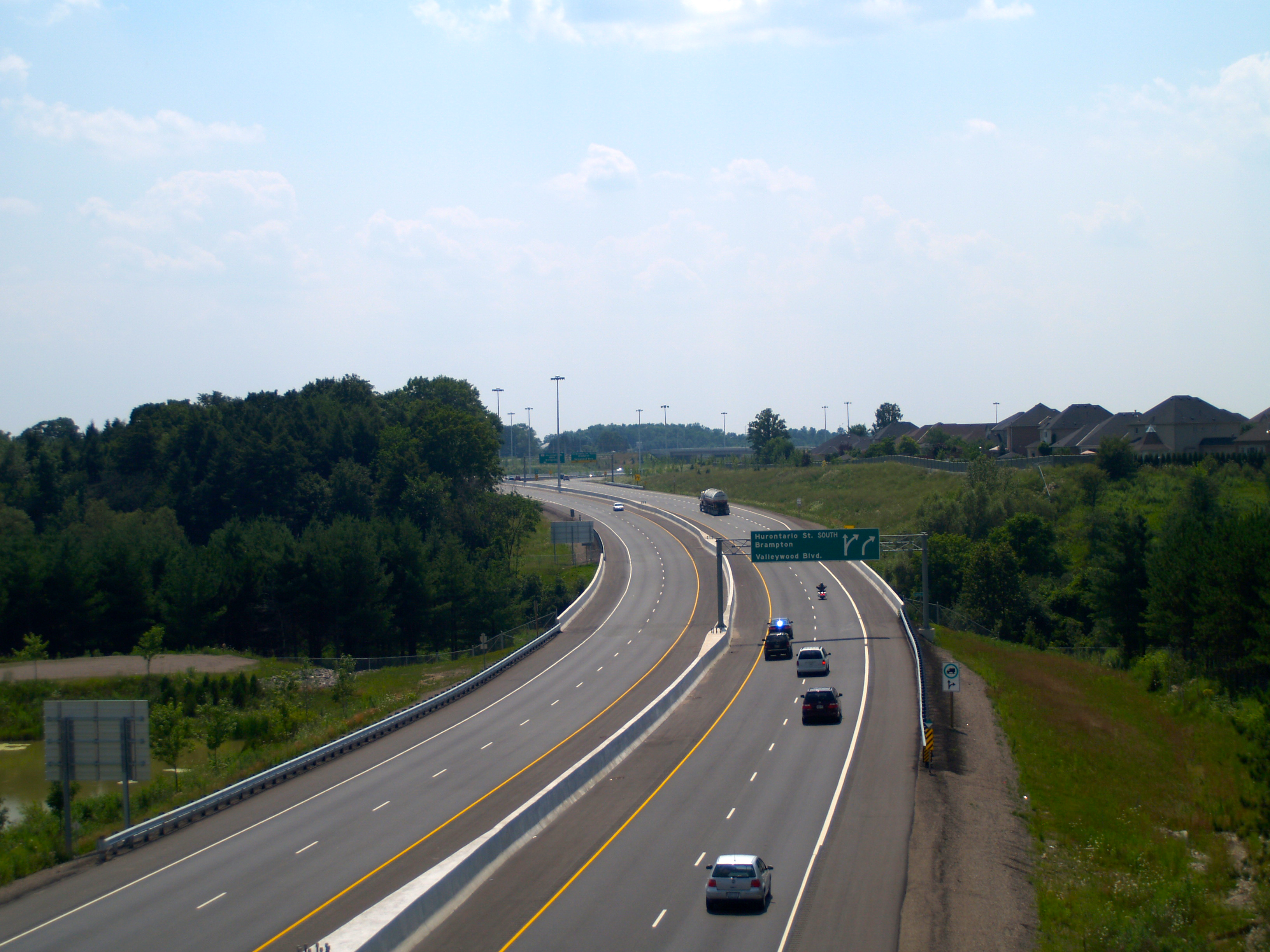 The new extension of Highway 410 as it crosses Etobicoke Creek, as pictured from the Kennedy Road overpass.